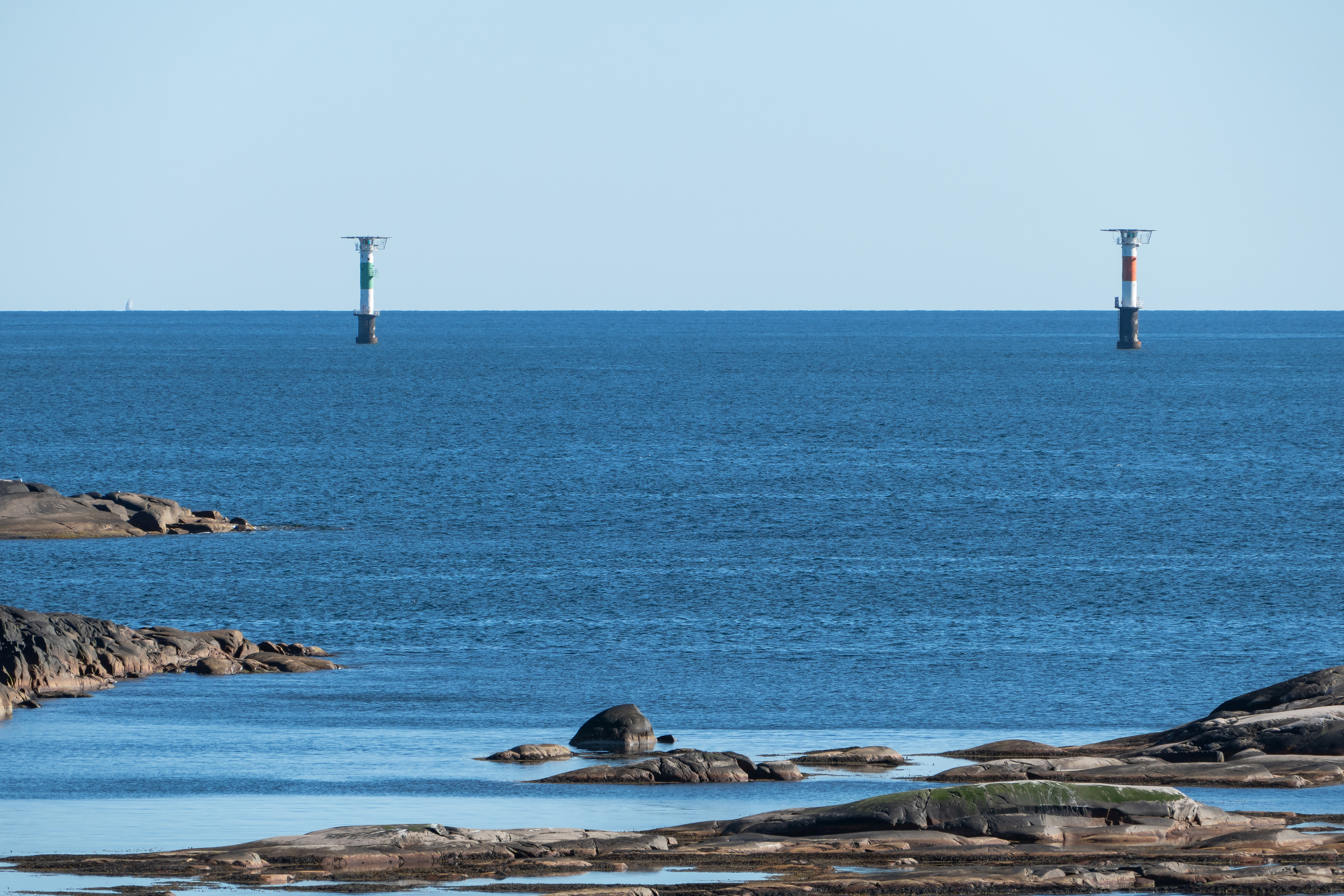 Brandskärs flak (white/green) and Dynabrott (white/red) caisson lighthouses seen from Draget on the south tip of Malmön, Sotenäs Municipality, Sweden.